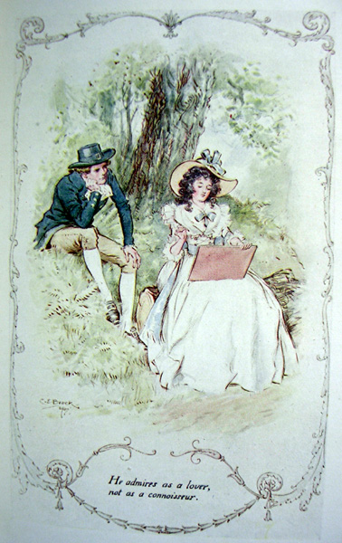 Ch 4 of Sense and Sensibility, (Jane Austen Novel) Edward admires Elinor's drawing as a lover, not as a connoisseur of picturesque